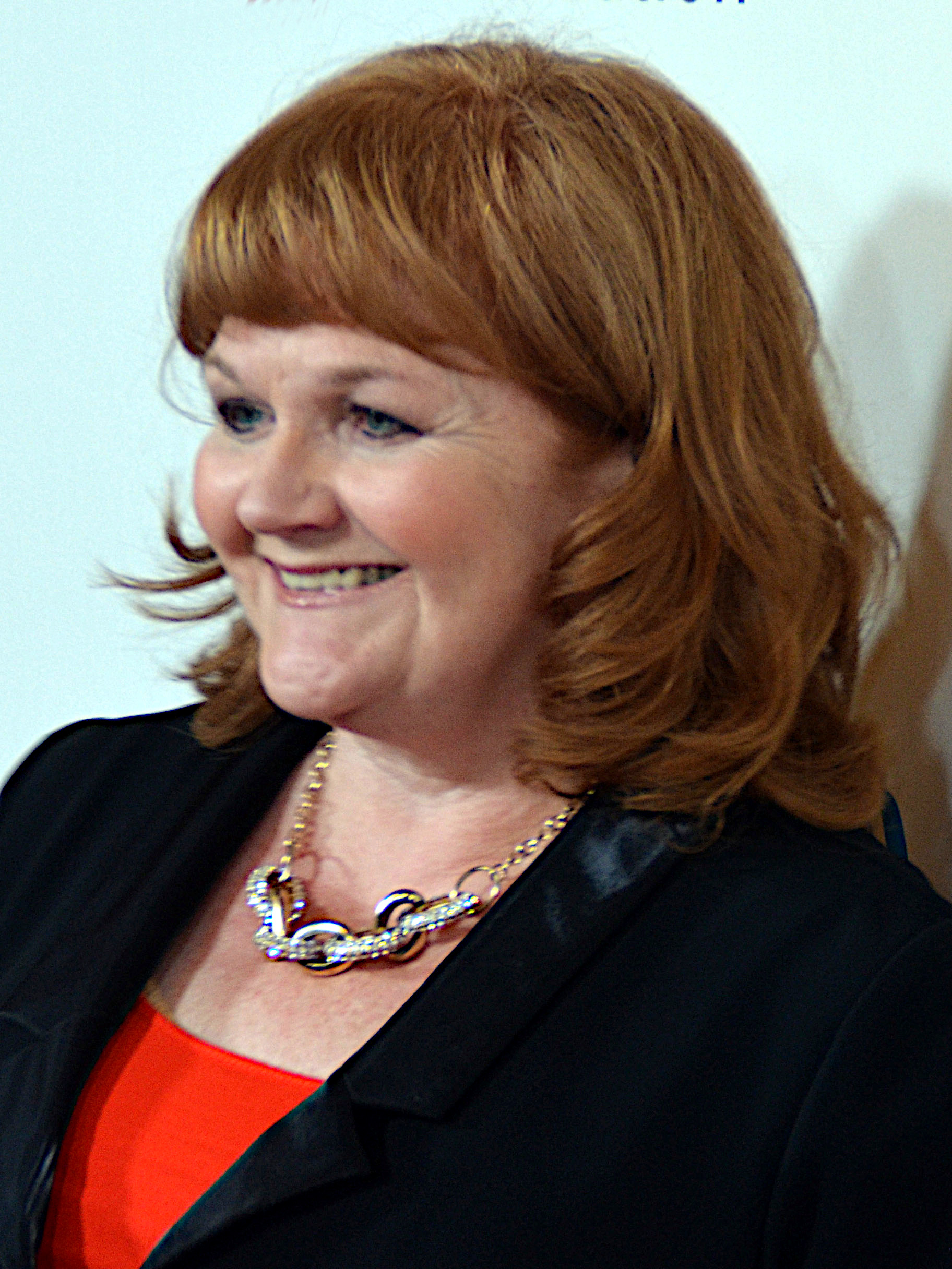 Lesley Nicol at the International Myeloma Foundation 8th Annual Comedy Celebration on November 8, 2014